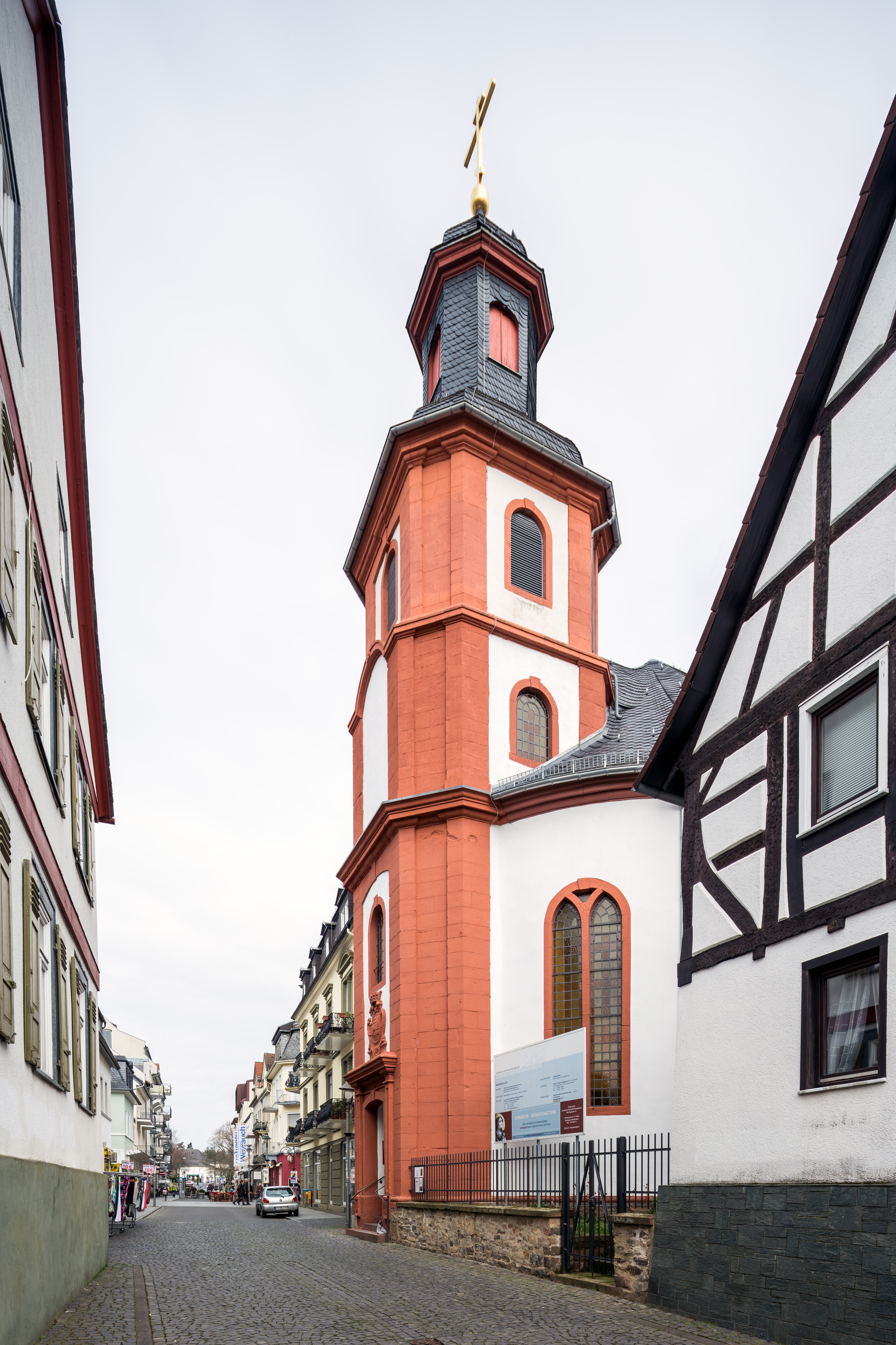 Bad Nauheim: Reinhardskirche (Reinhard Church) as seen from the southwest